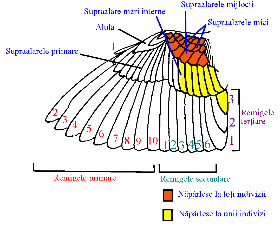 Luscinia megarhynchos. Partial postjuvenile moult ro